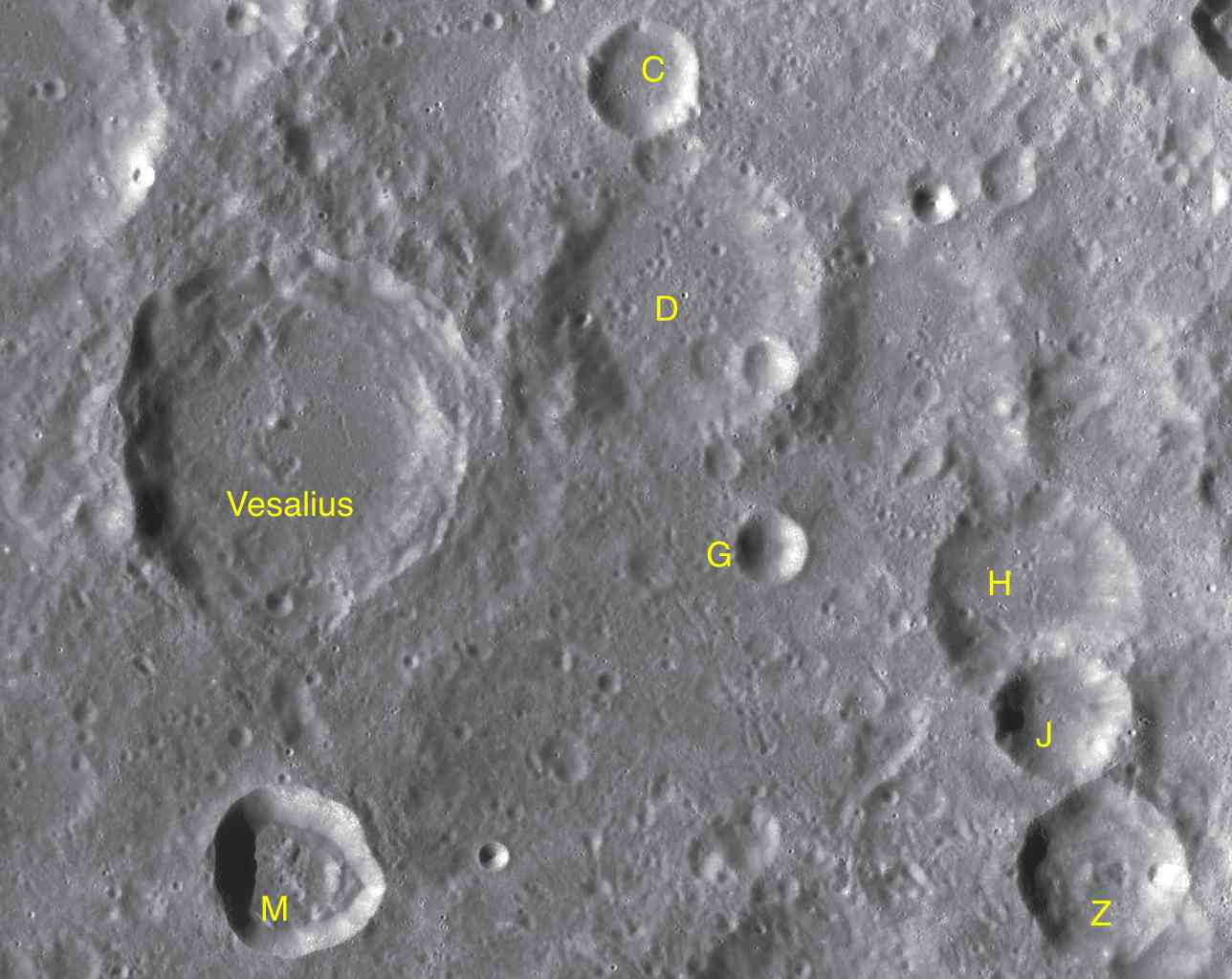 Part of LAC-83 chart used for the presentation. Crater marked as Z - satellite crater Langemak Z.